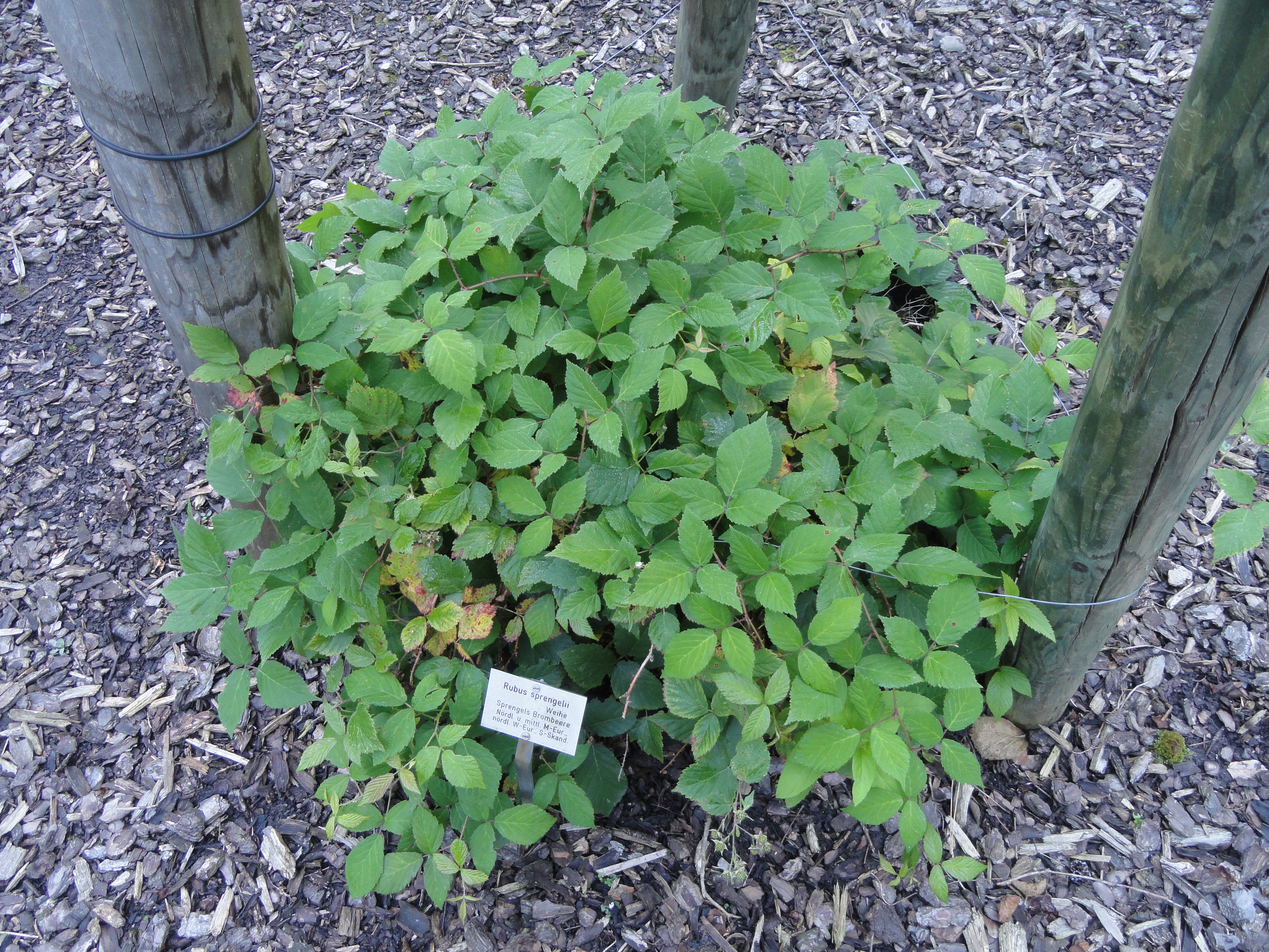 Botanical specimen in the Botanischer Garten, Frankfurt am Main, located at Siesmayerstraße 72, Frankfurt am Main, Germany.